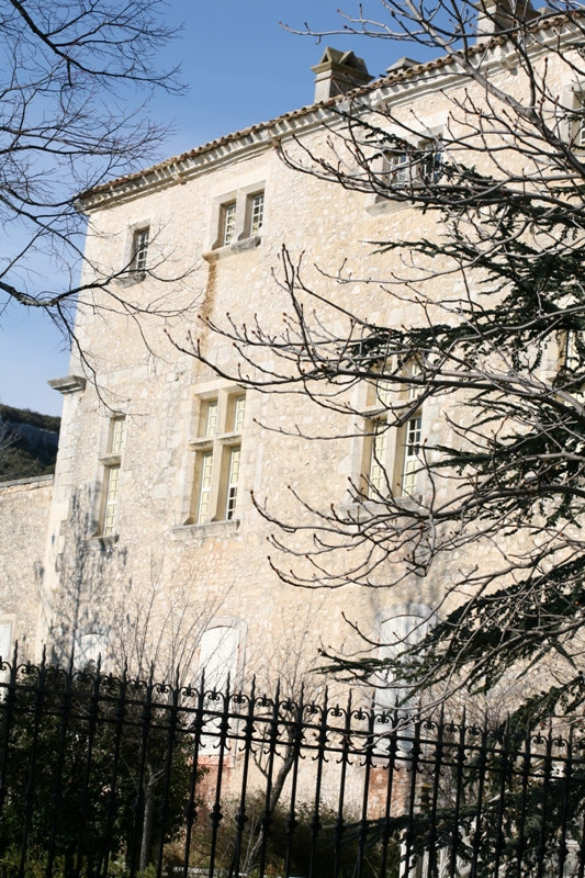 castle of Javon, Vaucluse, France